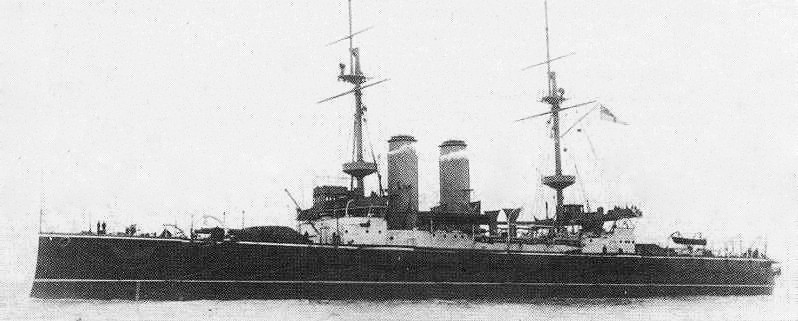 HMS Russell (1901) on trials in the summer of 1902